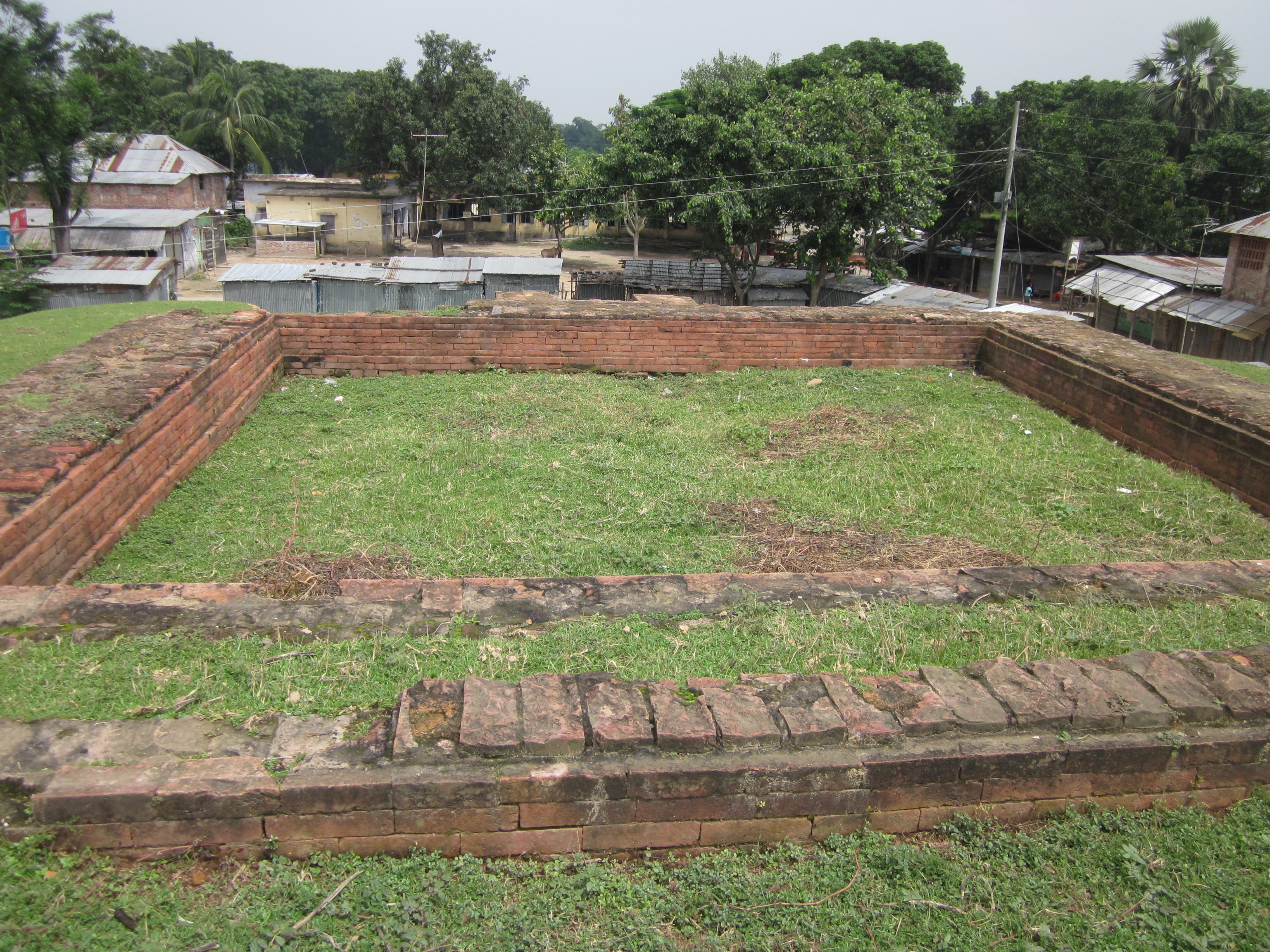 Halud Vihara: Archaeological site of 8th - 9th century